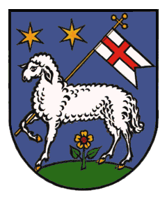 Coat of arms of Rettert, Germany.